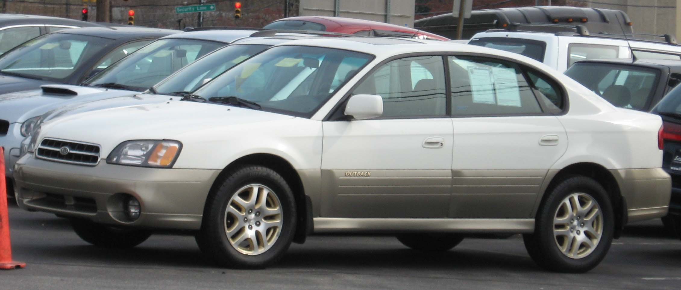 2000-2003 Subaru Outback photographed in USA.